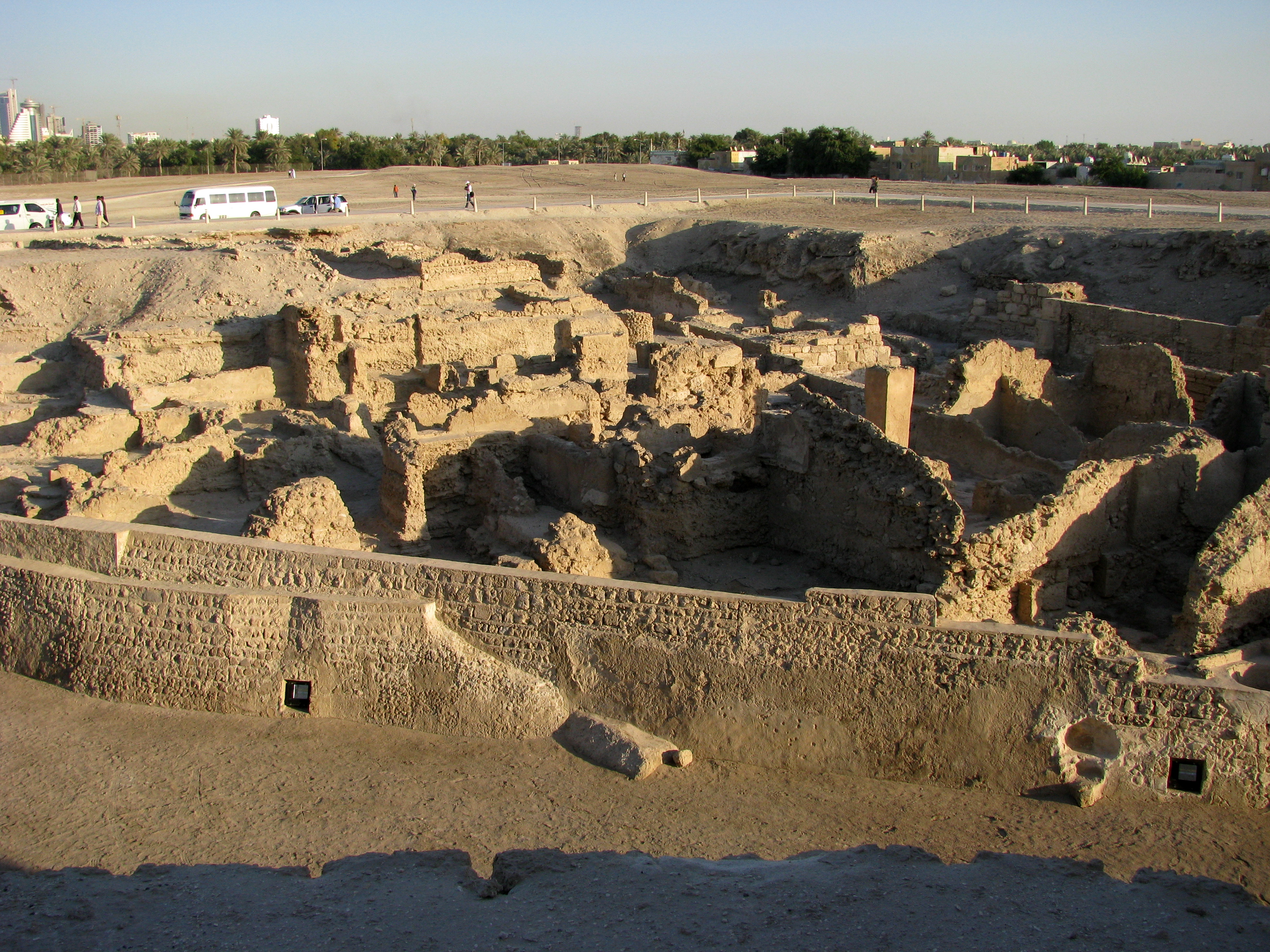 The archeological excavations next to the fort are extensive, with some parts dating back to around 2800BC. A visit to the adjacent museum makes it clear why this is listed as a World Heritage site.